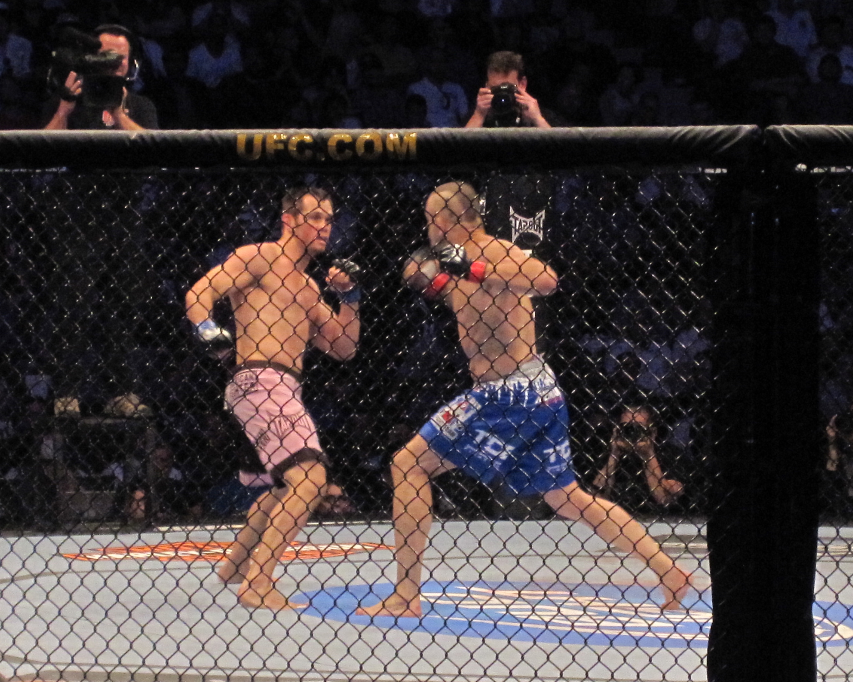 Chuck Liddell facing off against Rich Franklin at UFC 115.